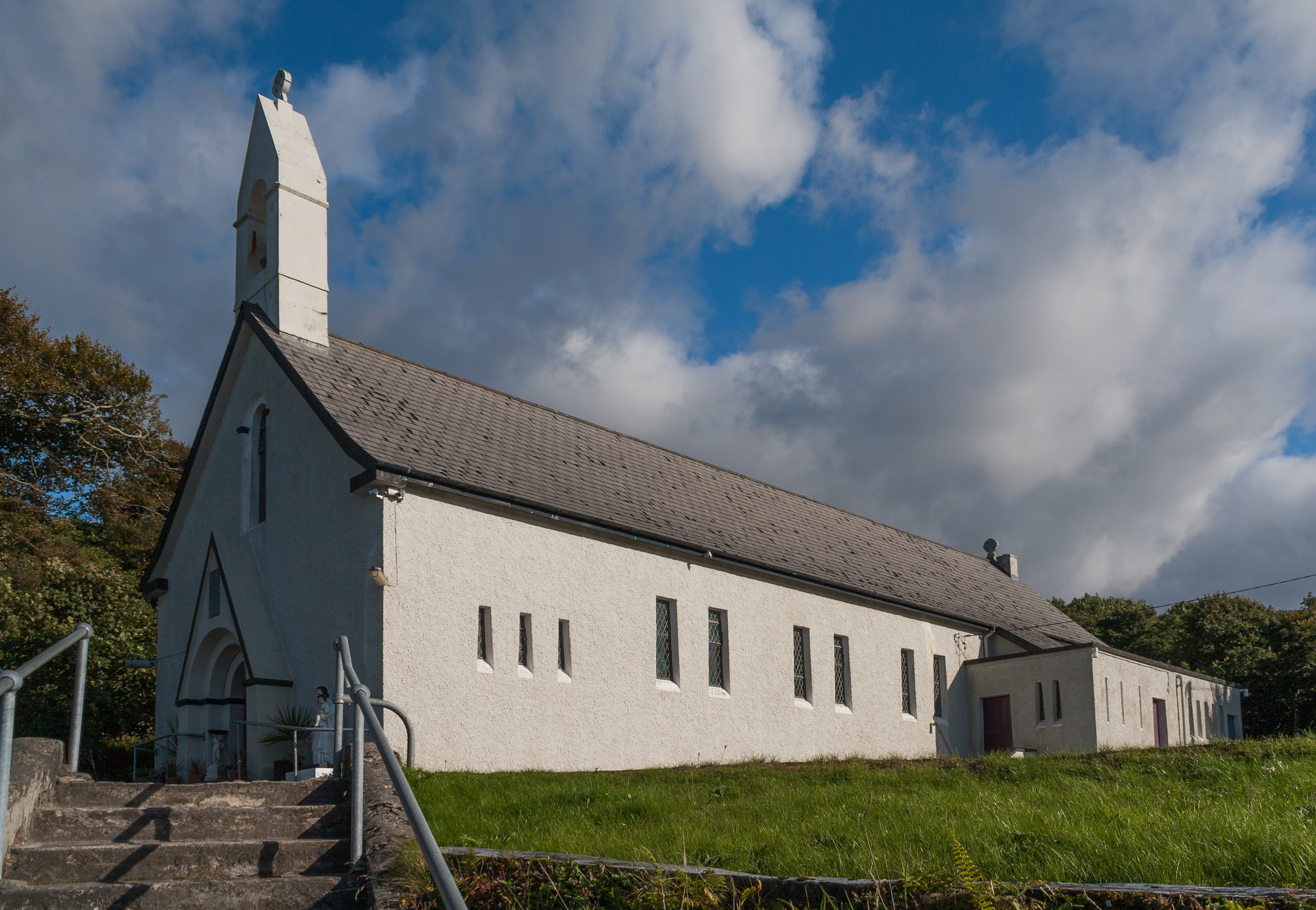 North-west view of St. Joseph's Church, Letterfrack, built in 1925/6 after the designs by the architect Rudolf Maximilian Butler, and dedicated on 12 June 1926 by Thomas Gilmartin. (See NIAH record, DIA entry, and Dedication of Letterfrack Church, Connacht Tribune, 26 June 1926, p. 3.)